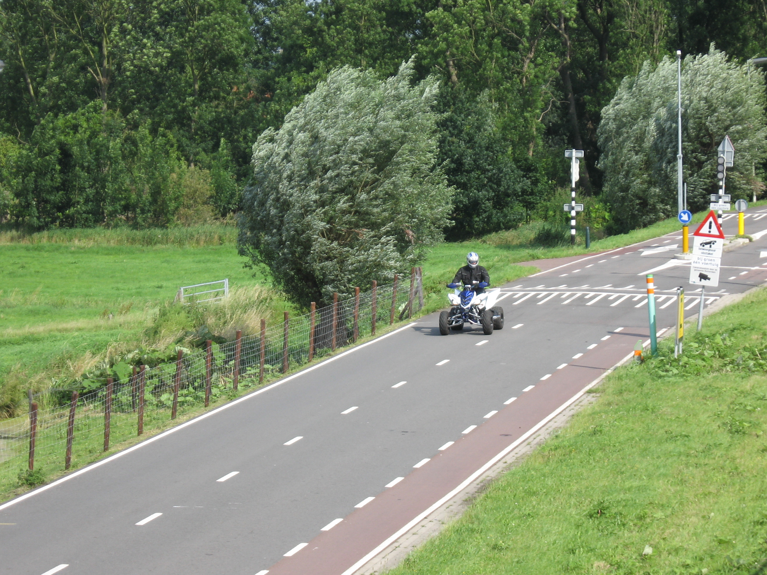 Quad bike on public road in Netherlands